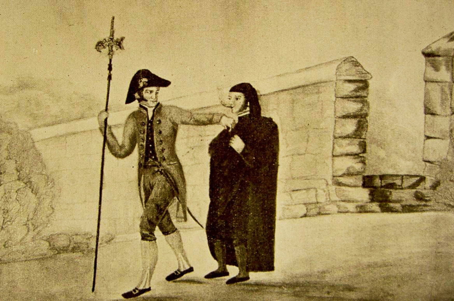 19th-century zinc engraving depicting a student of the University of Coimbra being arrested by a member of the University Corps of Halberdiers.